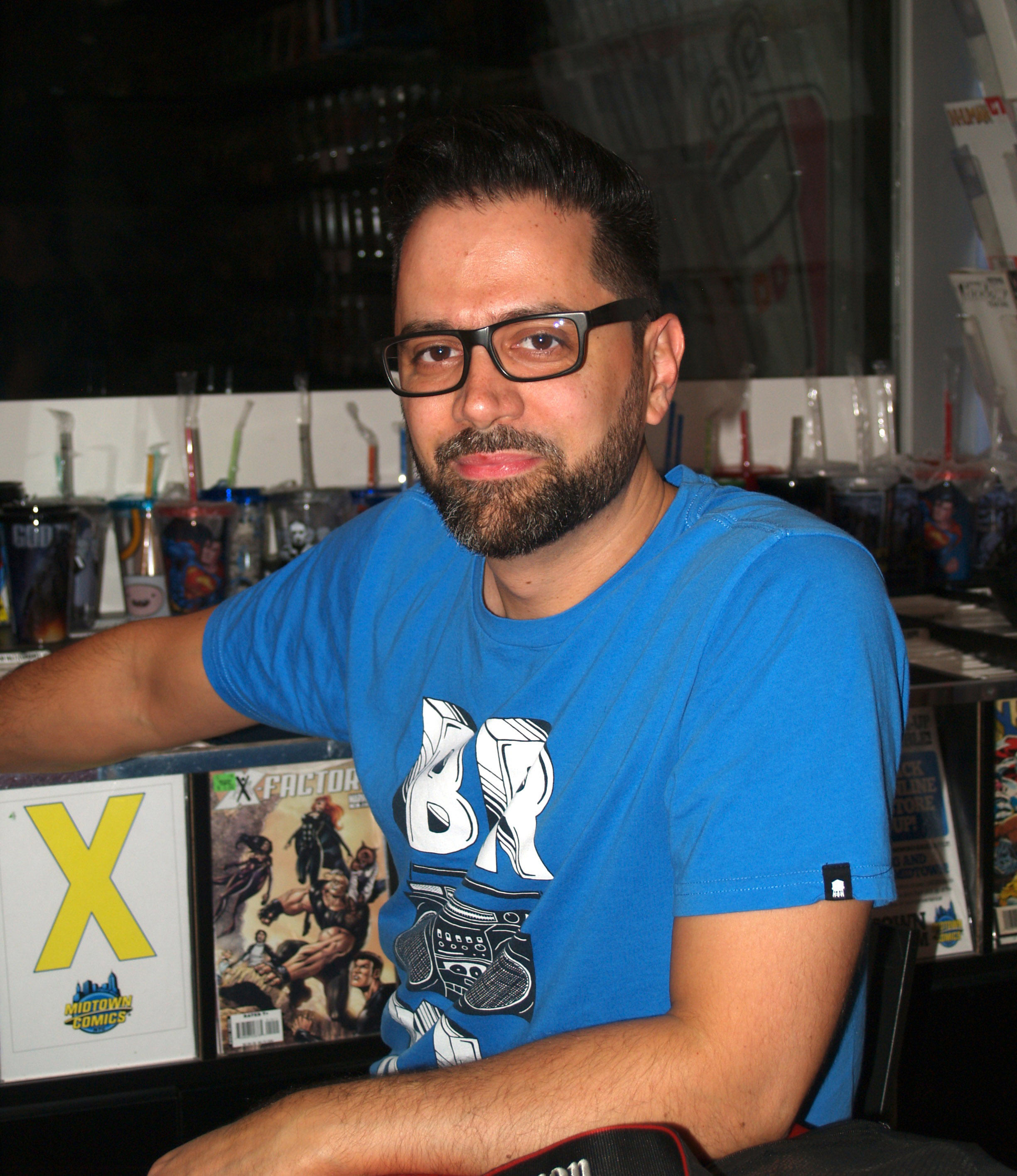 Edgardo Miranda-Rodriguez, the Editor-in-Chief of Darryl Makes Comics, the comic book publishing company of hip-hop music artist Darryl "DMC" McDaniels of Run–D.M.C., at a November 6, 2014 book signing at Midtown Comics Downtown for Darryl Makes Comics' first comic book, DMC #1. This photo was created by Luigi Novi. It is not in the public domain, and use of this file outside of the licensing terms is a copyright violation.